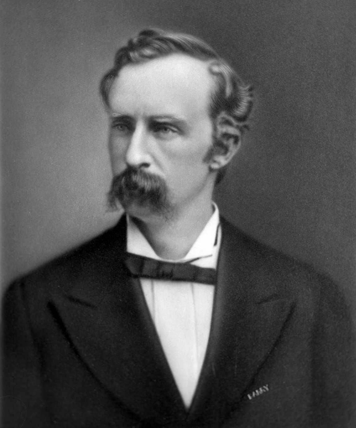 General George A. Custer, wearing white shirt, tie.